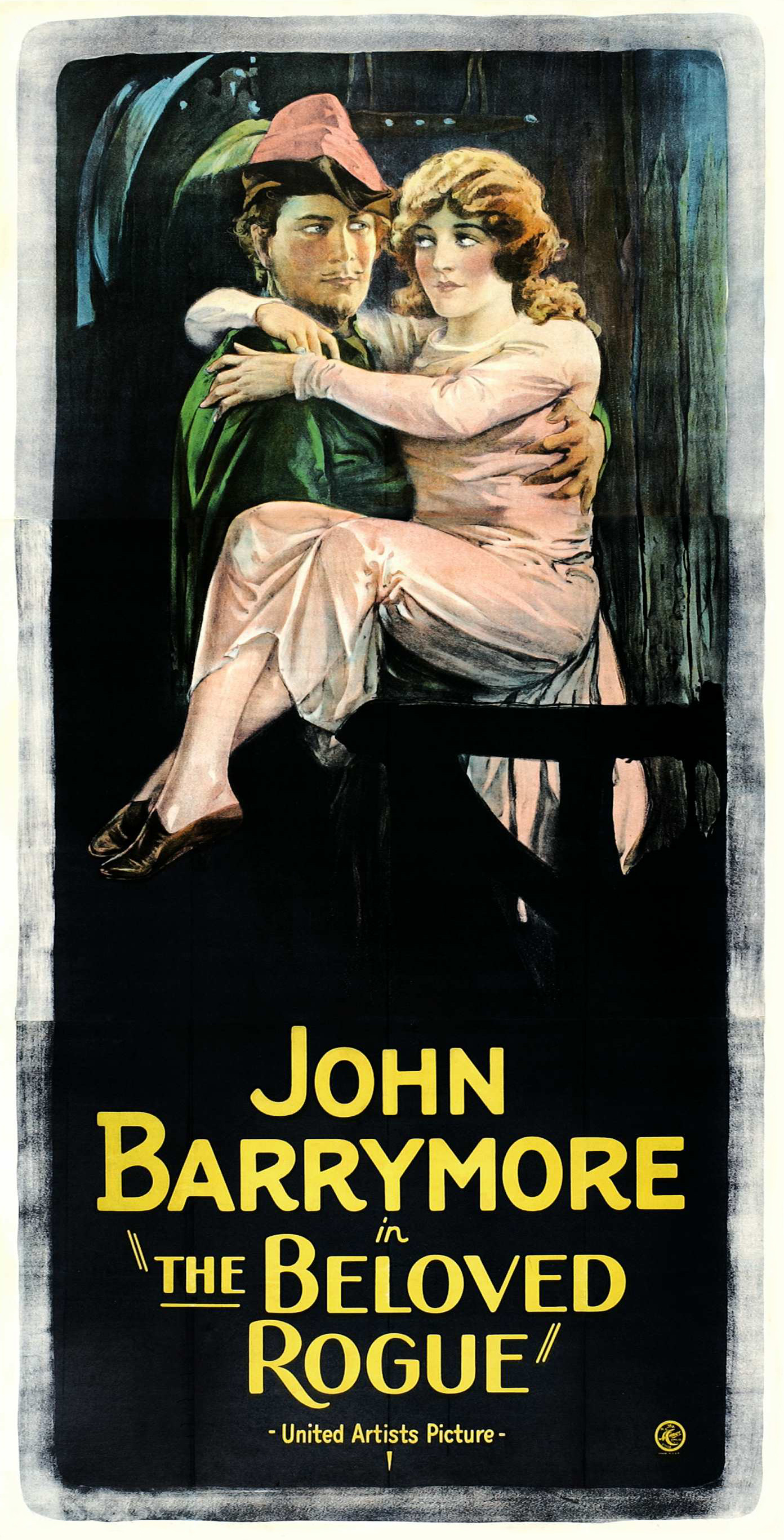 Poster for the 1927 film The Beloved Rogue. A renewal search was done in both motion picture and artwork categories for the years 1954 and 1955. There were no listings for this title in motion pictures or for the title and United Artists in artwork. There's no evidence of continuing copyright for the film and its materials.